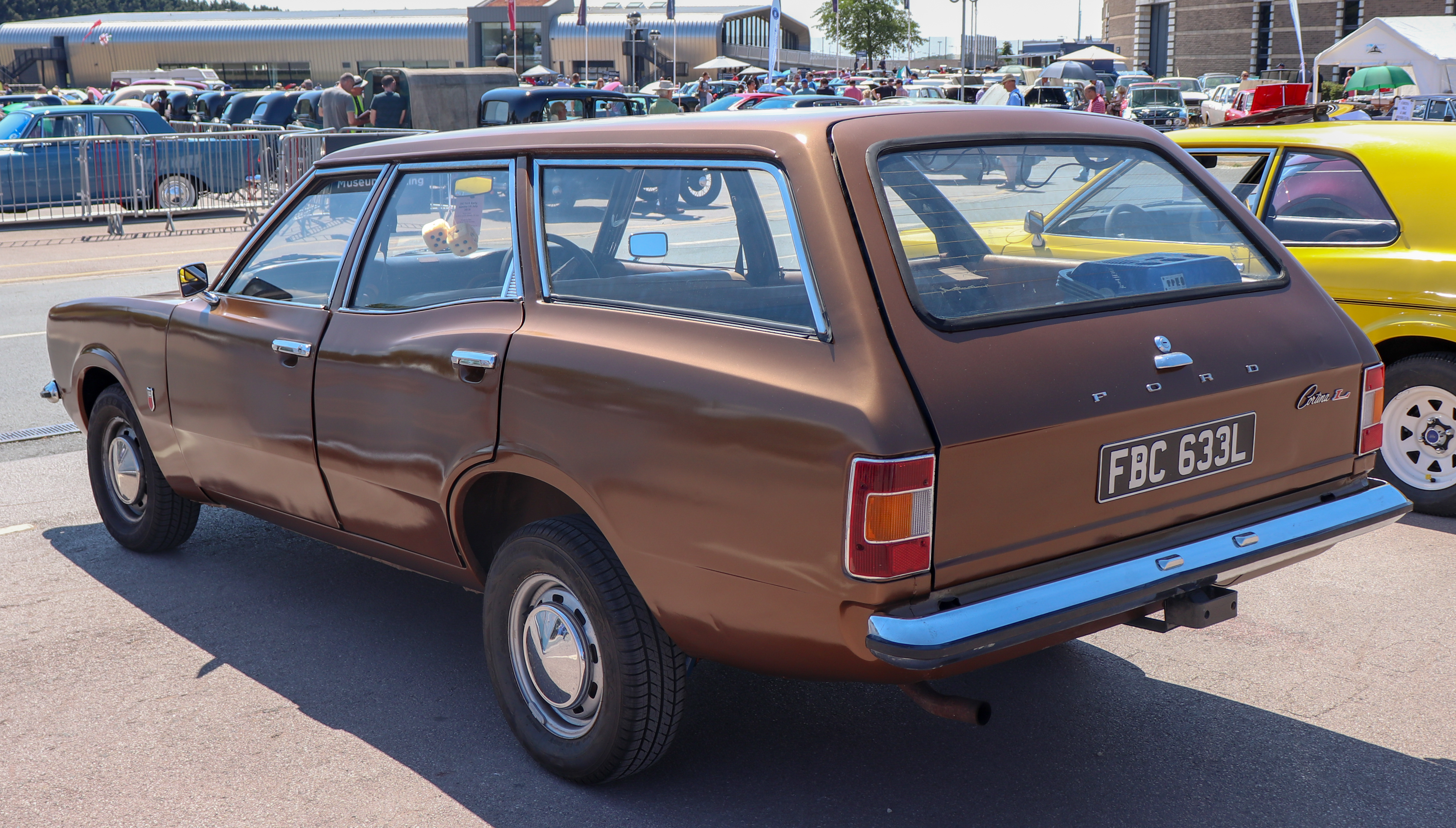 1972 Ford Cortina Mark III 1600 Base Estate Rear Taken at the British Motor Museum Old Ford Rally 2018, Gaydon